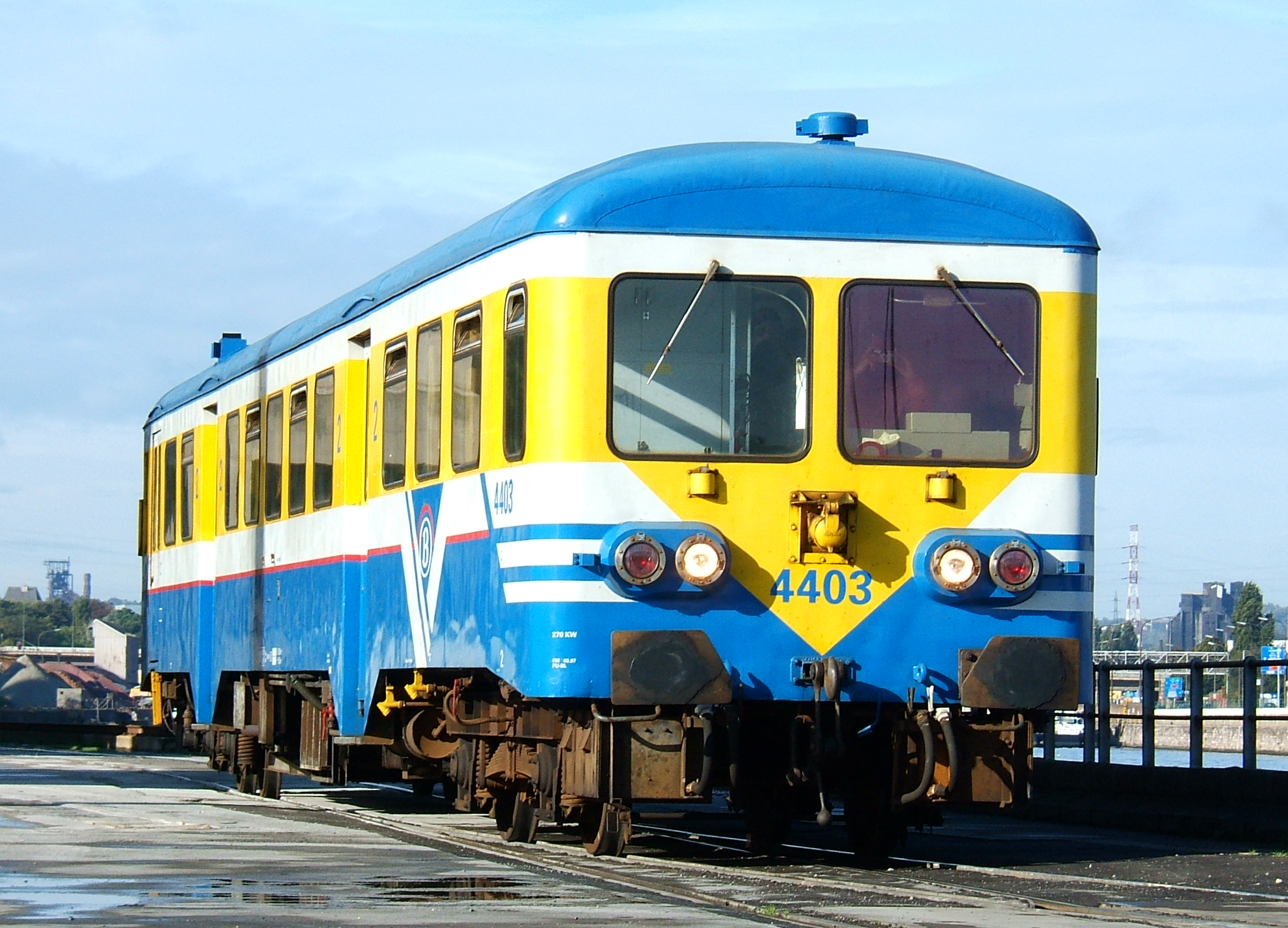 This example of the withdrawn 1955-built class is preserved by the "Stoomcentrum Maldegem"